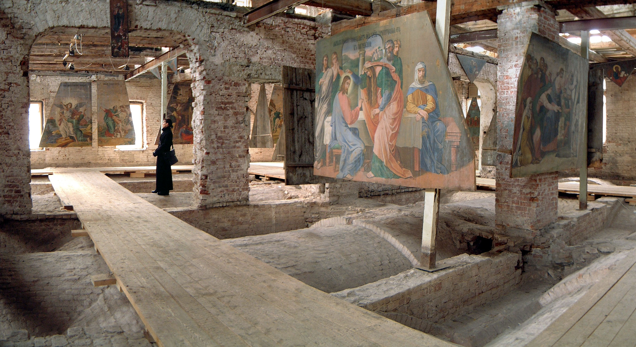 Exhibition Space of Schusev Museum of Architecture, 2012